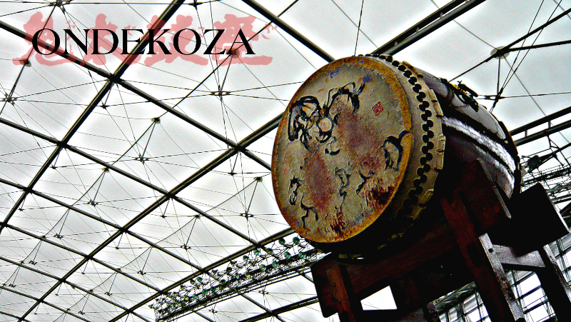 350kg Odaiko taiko drum used by Ondekoza